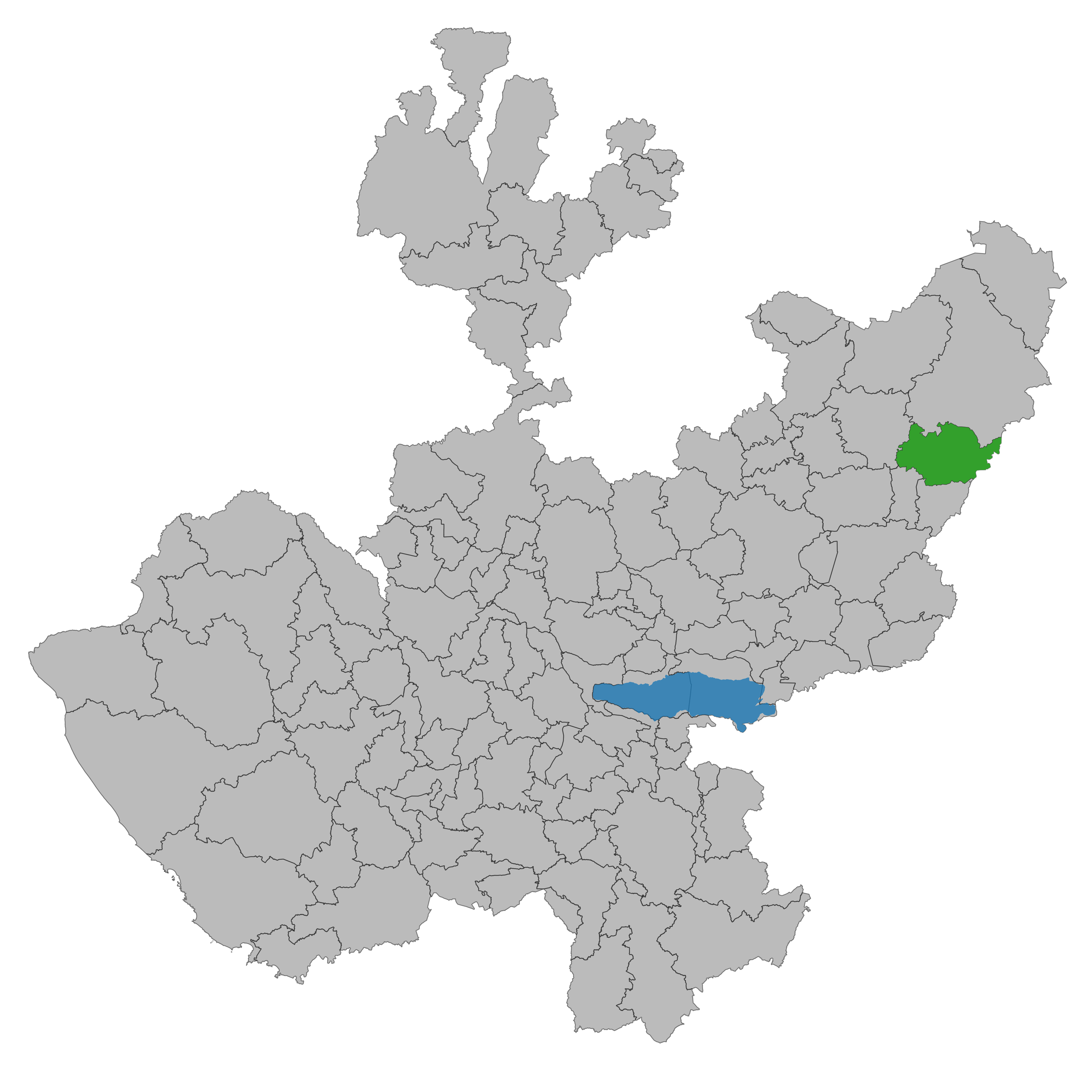 Municipality of Jalisco. Prepared with the software QGIS version 2.8.2 Wien & with information of SCINCE 2010 version 05/2013